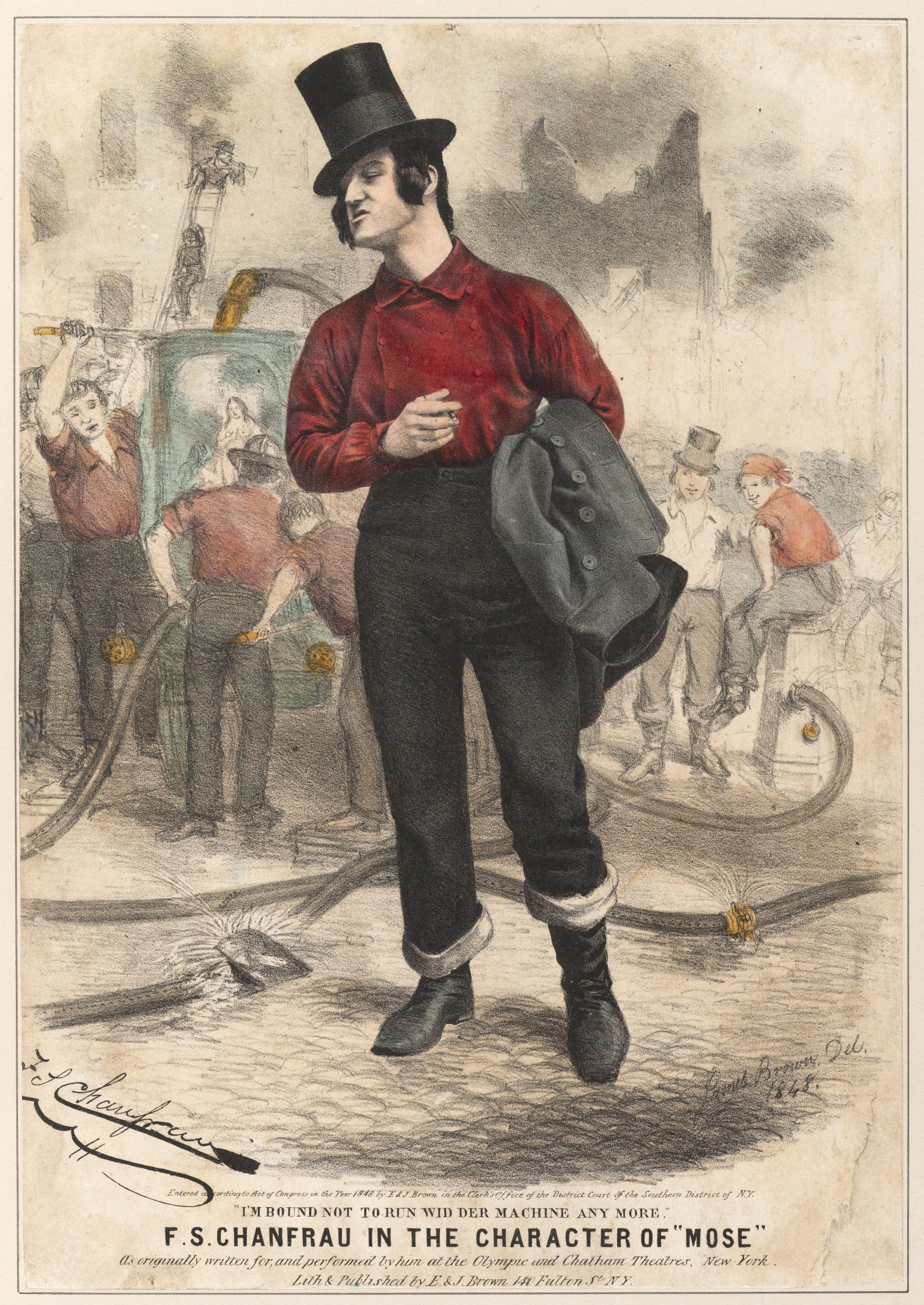 Colored illustration: F.S. Chanfrau in the character of “Mose”, 1848. TS 939.5.3, Harvard Theatre Collection, Houghton Library, Harvard University